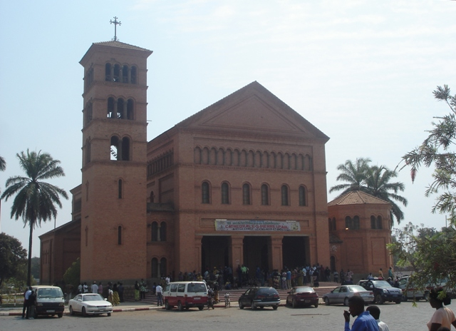 Roman Catholic Cathedral St Pierre et Paul in Lubumbashi, RDC